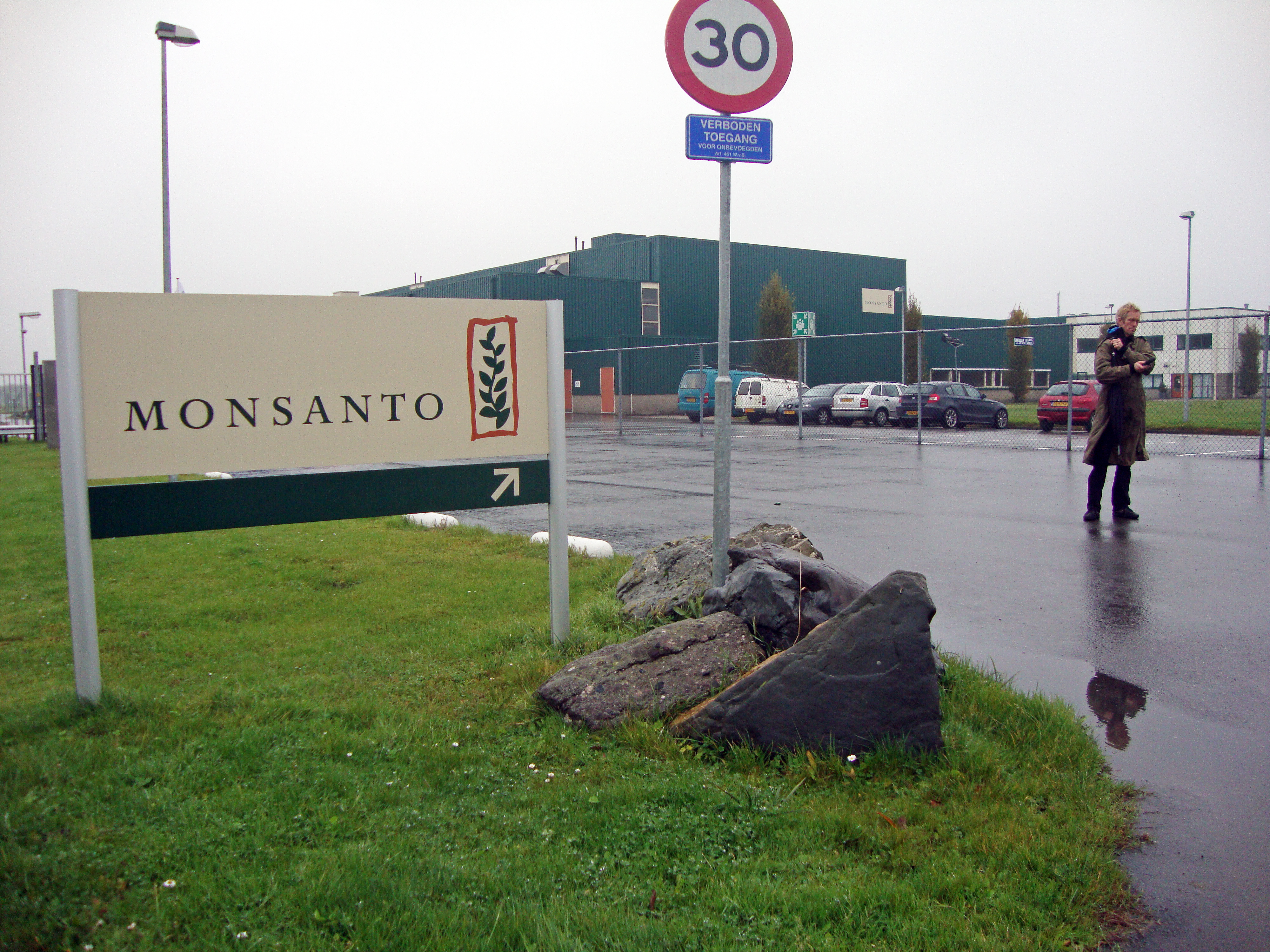 "Public inspection" of the Monsanto facility at Enkhuizen, Netherlands